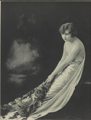 Allyn King, in the comedy "Ladies' Night", from a 1921 publication. Photograph by Bachrach Studios.